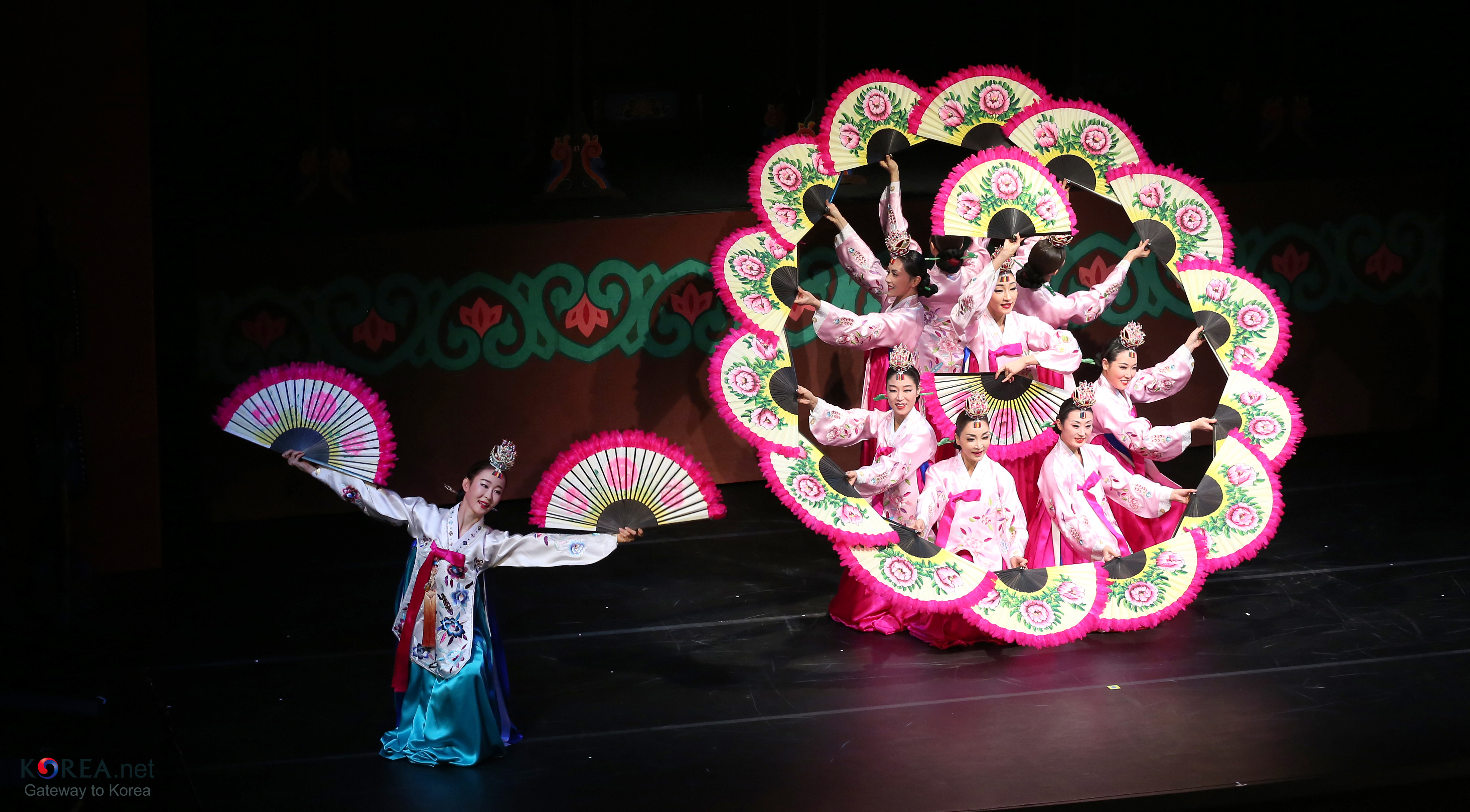 Korea Fantasy Performance in Bern The “Korea Fantasy” performance shows off some representative traditional Korean dancing. It was presented by the National Dance Company of Korea in Bern, Switzerland, on January 19. January 19, 2014. Paul Klee Center, Bern, Switzerland Ministry of Culture, Sports and Tourism Korean Culture and Information Service ( JEON HAN 코리아 판타지 국립무용단 단원들이 19일(현지시간) 파울 클레 센터에서 ‘코리아 판타지’ 공연을 펼치고 있다. 2014-01-19 파울 클레 센터, 베른, 스위스 문화체육관광부 해외문화홍보원 코리아넷 전한